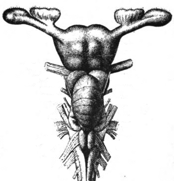 A drawing of the brain of a dogfish shark, from the book "The soul of man", by Paul Carus, 1905.